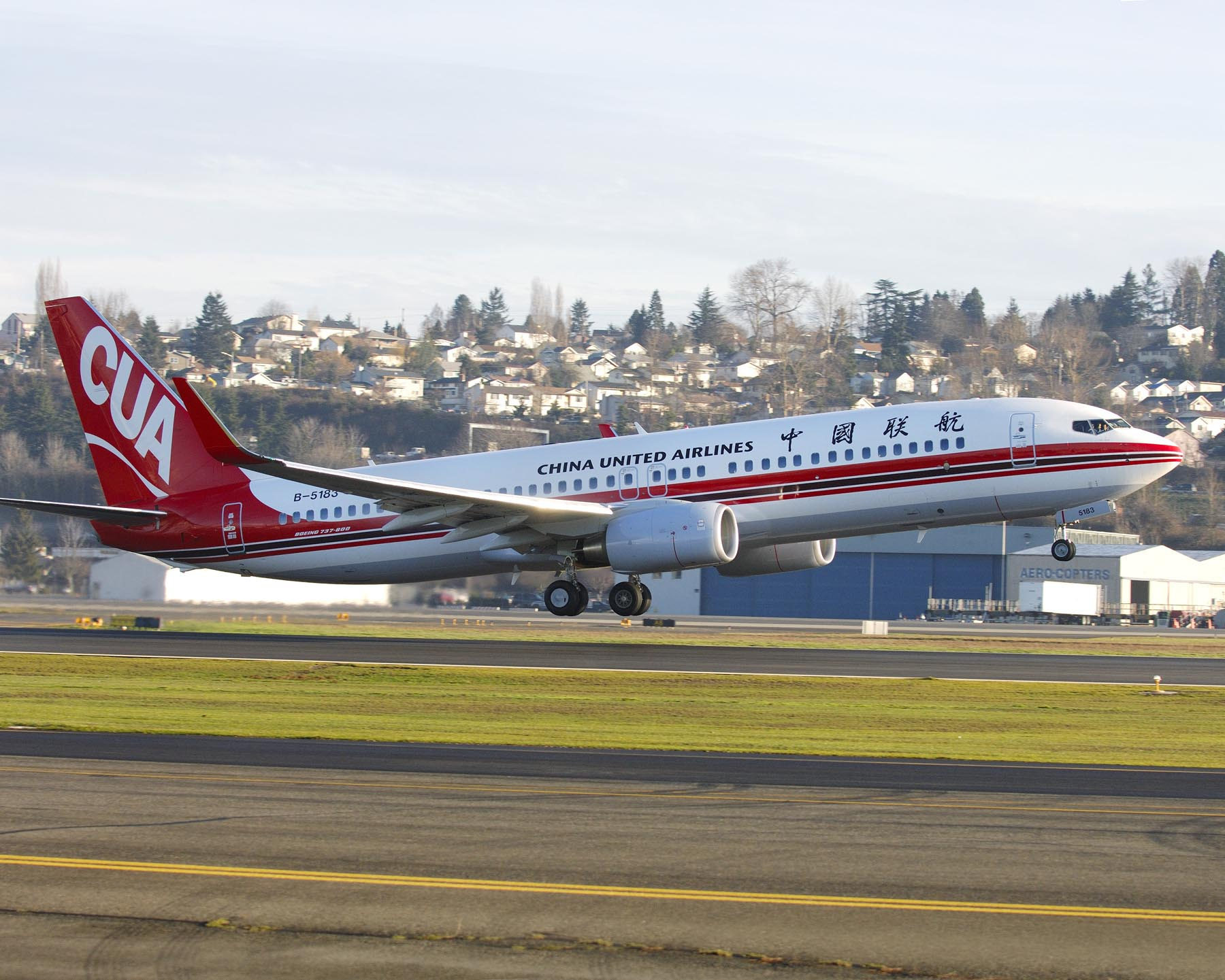 Ilf china united airlines yd496-2159 737-800 take off k63927-03